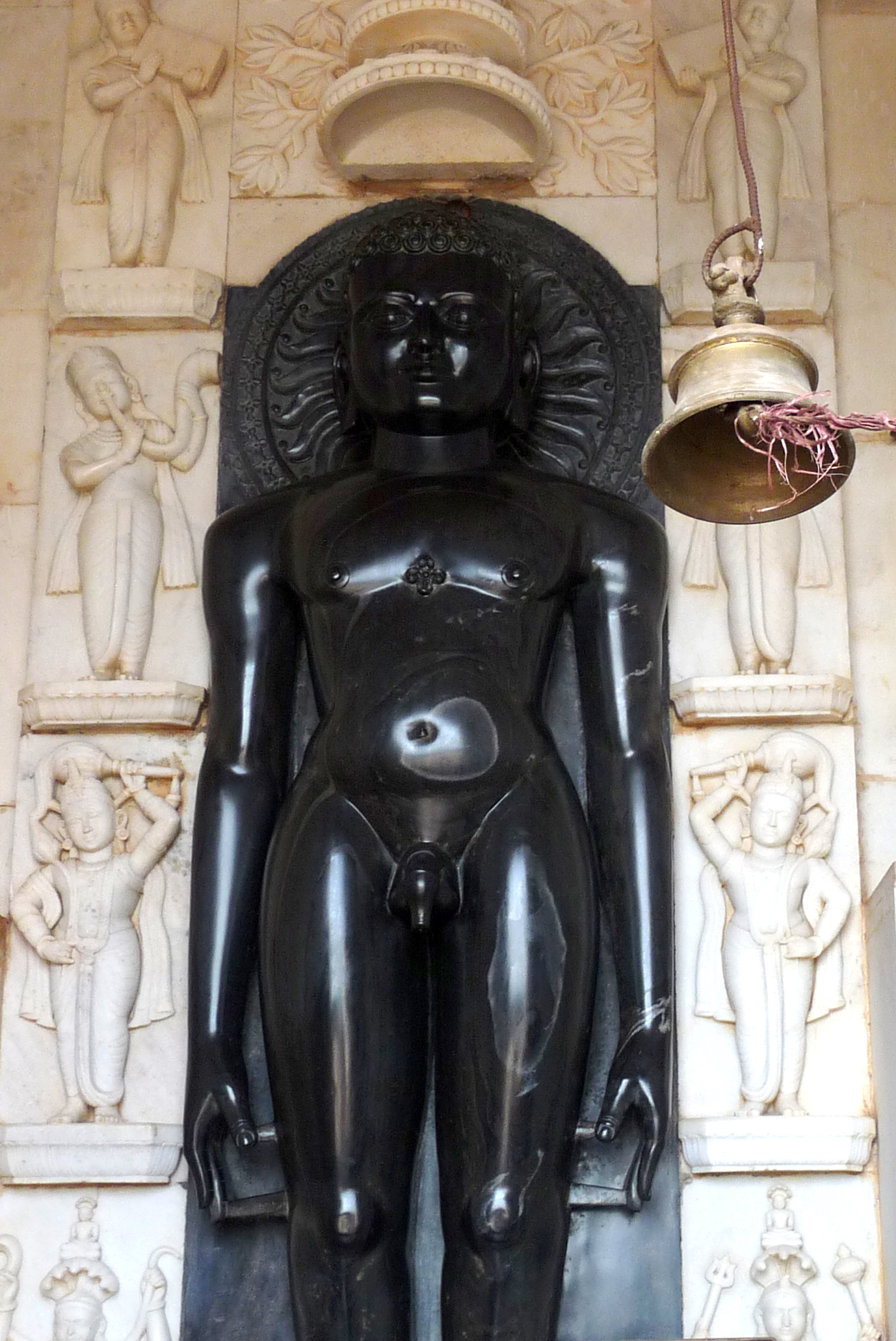 Udaygiri & Khandagiri Caves, Bhubaneswar Jain statue at top of hill